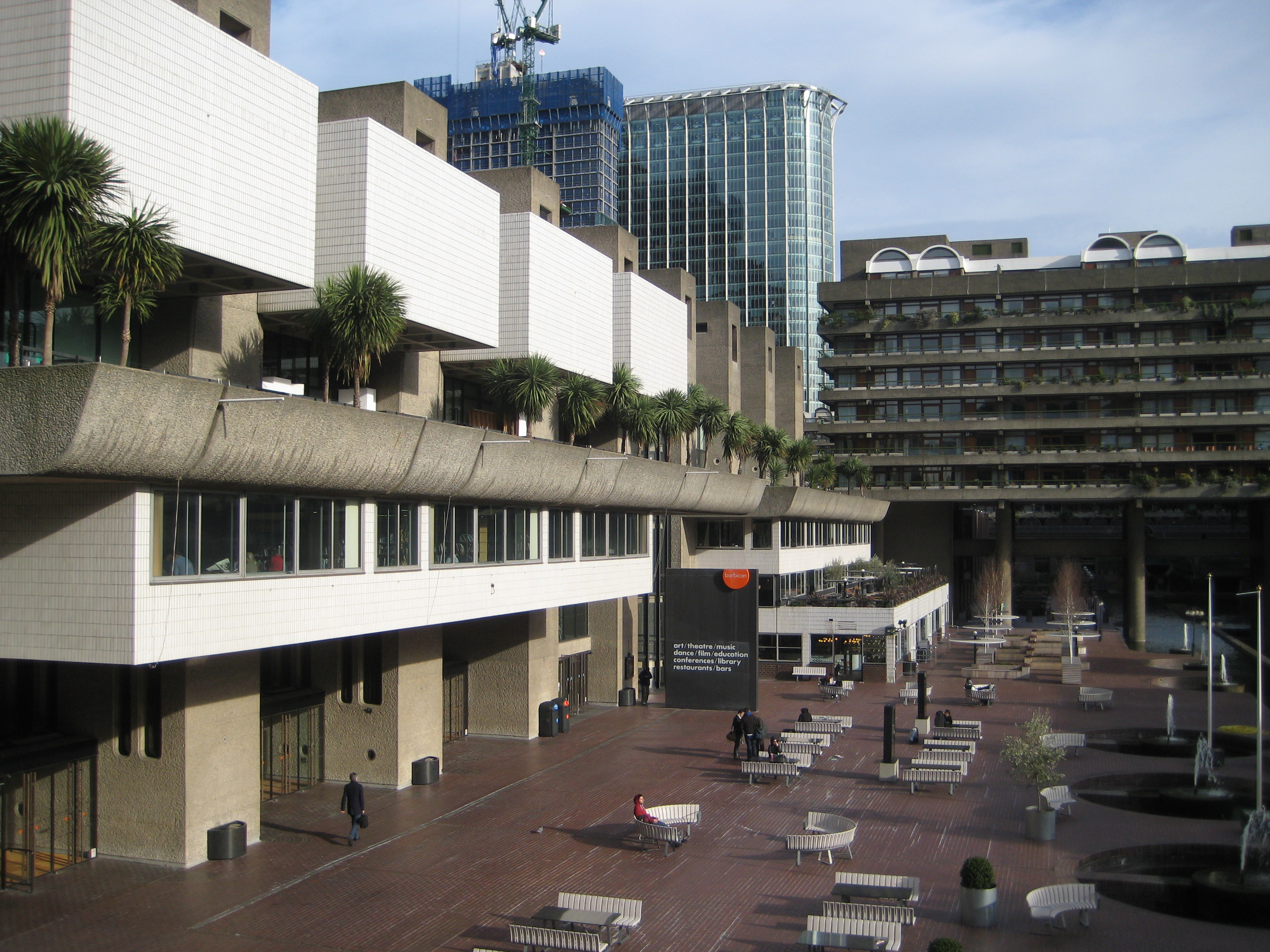 The exterior of the Barbican Arts Center.